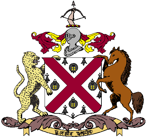 Nabha State Coat of Arms This work is in the public domain in India because its term of copyright has expired. The Indian Copyright Act applies in India, to works first published in India. According to The Indian Copyright Act, 1957 (Chapter V Section 25), Anonymous works, photographs, cinematographic works, sound recordings, government works, and works of corporate authorship or of international organizations enter the public domain 60 years after the date on which they were first published, counted from the beginning of the following calendar year (ie. as of 2020, works published prior to 1 January 1960 are considered public domain). Posthumous works (other than those above) enter the public domain after 60 years from publication date. Any other kind of work enters the public domain 60 years after the author's death. Text of laws, judicial opinions, and other government reports are free from copyright. Photographs created before 1960 are in the public domain 50 years after creation, as per the Copyright Act 1911. This file may not be in the public domain outside India. The creator and year of publication are essential information and must be provided. See Wikipedia:Public domain and Wikipedia:Copyrights for more details. This image shows a flag, a coat of arms, a seal or some other official insignia. The use of such symbols is restricted in many countries. These restrictions are independent of the copyright status.